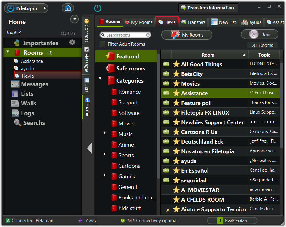 Filetopia Room selection screen and Home Sidebar